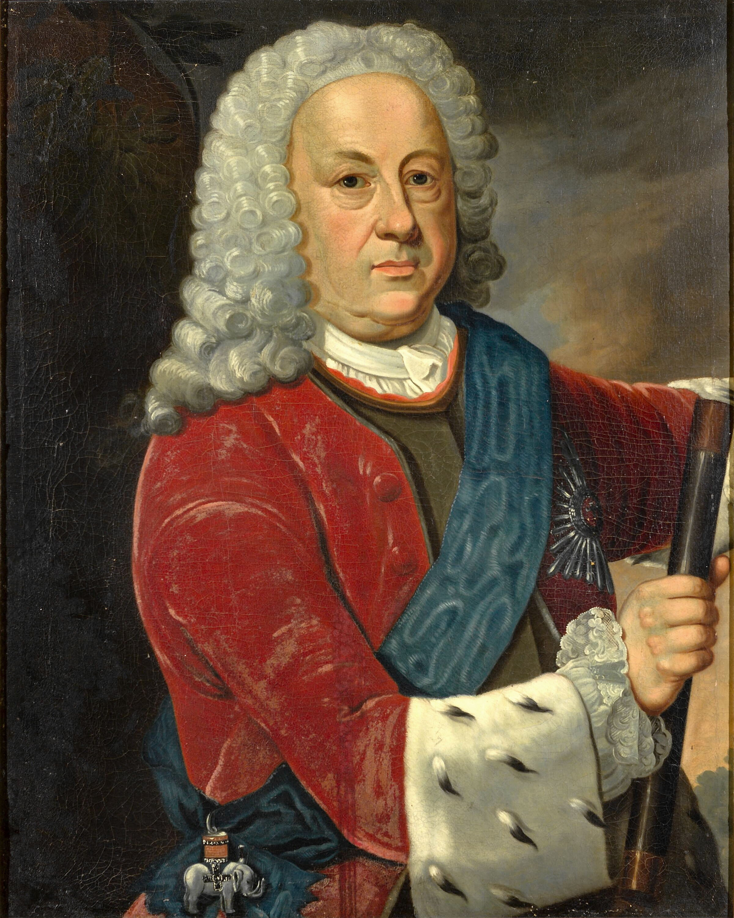 Charles I, Landgrave of Hesse-Philippsthal (1682-1770), officer in Danish and Austrian service. Since 1698 at the Danish court, studies at the Copenhagen academy. Captain of the Danish bodyguards on foot (1700), lieutenant colonel (1703), brigadier general of the Danish infantry (1709), general major of a battalion of the Royal Danish bodyguards on foot, in English and Dutch service (1710), lieutenant General of the Danish infantry (1715), Lieutenant General of the army in French service (1721). After 1748, the Austrian Emperor Charles VII appointed him Imperial "General Field Marshal Lieutenant." Knight in the Order of the White Elephant (1731).